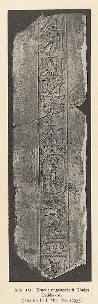 A photograph of a large fragment of an inscription found in Nyuserre's mortuary temple. Borchardt attributes the inscription to Djedkare (refer cartouche).